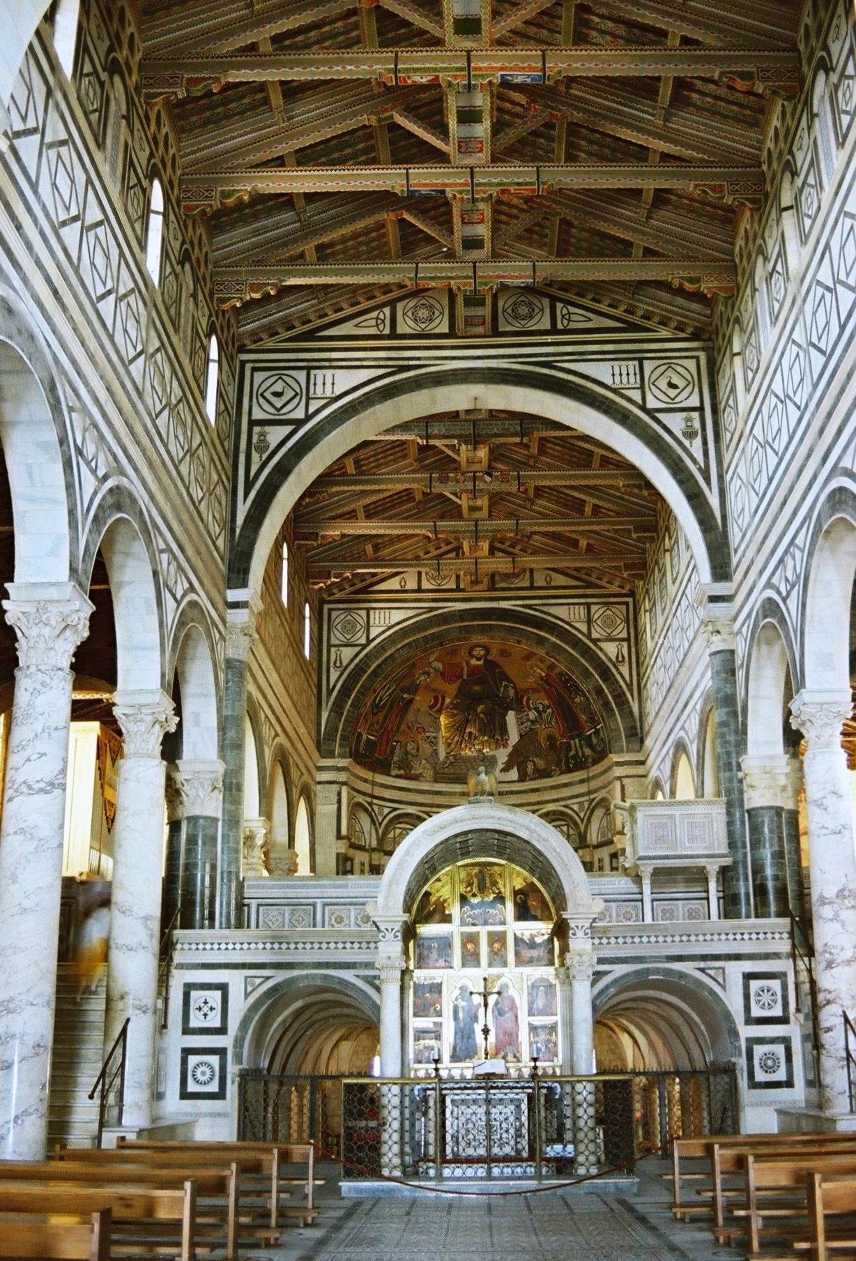 Church San Miniato al Monte, Florence, Italy